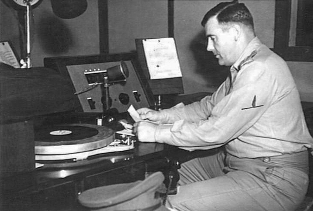 Port Moresby, Papua, 1944-02-26. The General Manager, Australian Broadcasting Commission, Lieutenant Colonel C.J.A. Moses, delivering his address from No.1 Studio, "9PA", during the station's opening ceremony.